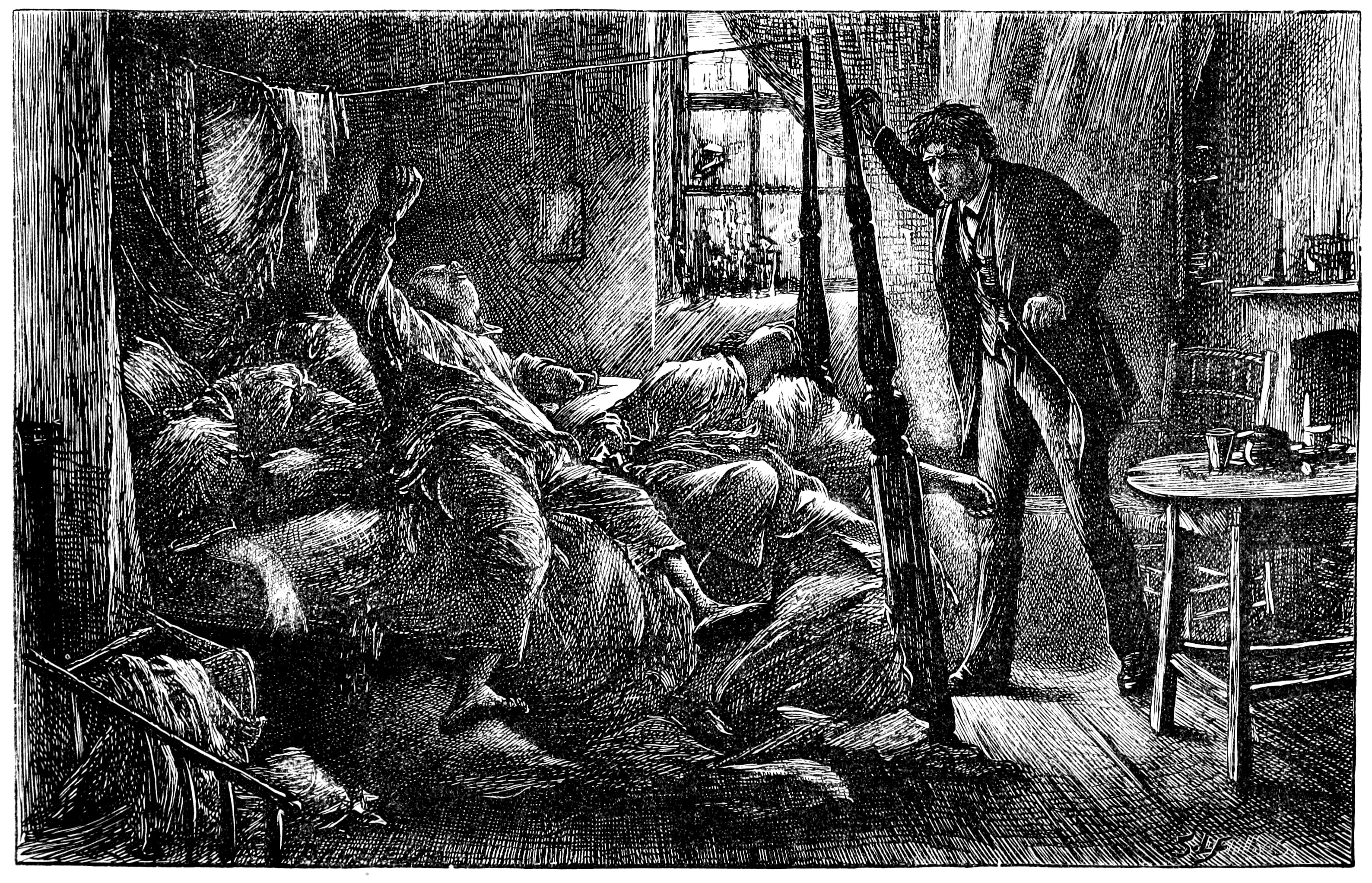 Illustration from the book, The Mystery of Edwin Drood, written by Charles Dickens, illustrated by Luke Fides